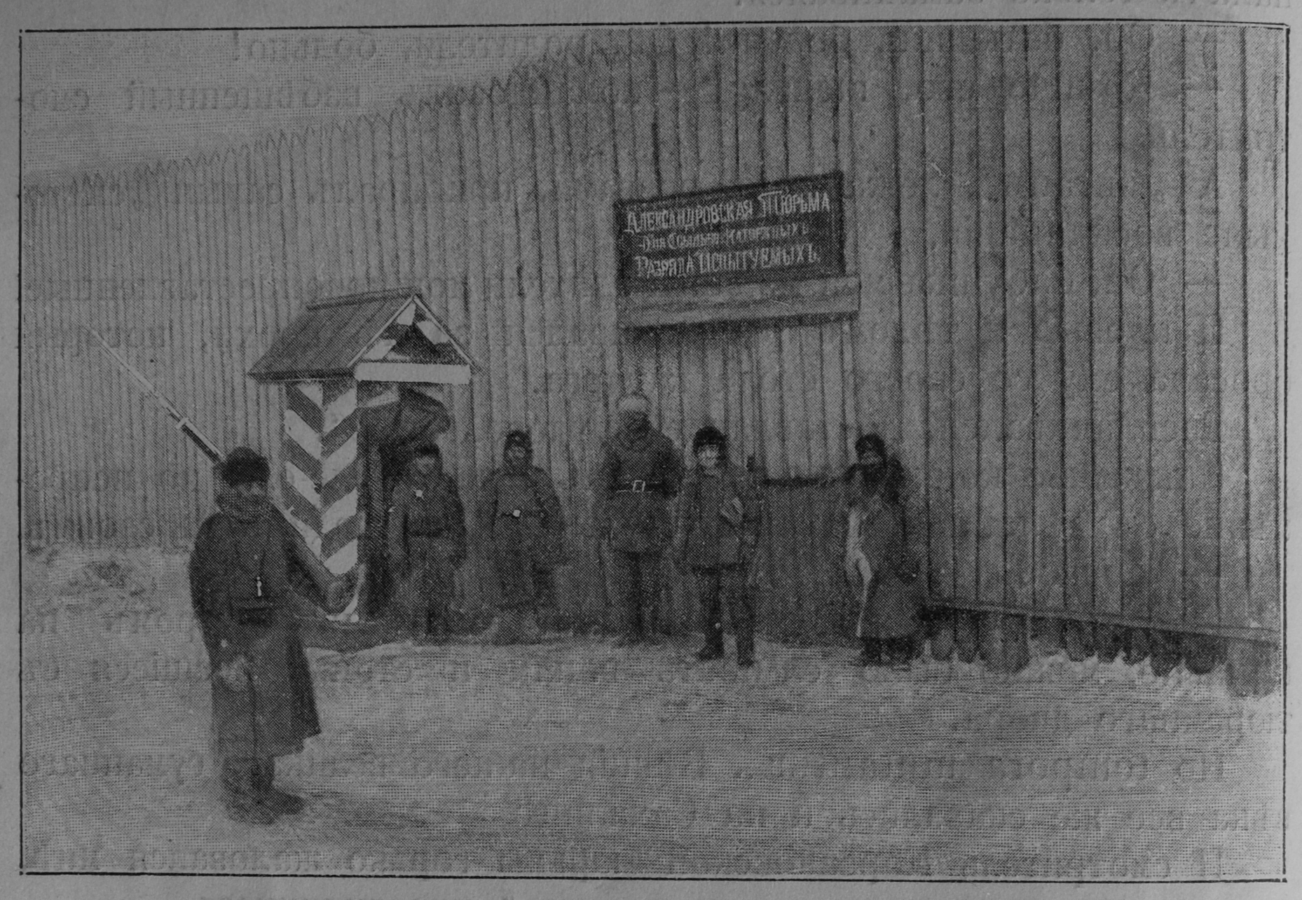 Aleksandrovskaya prison for prisoners under test